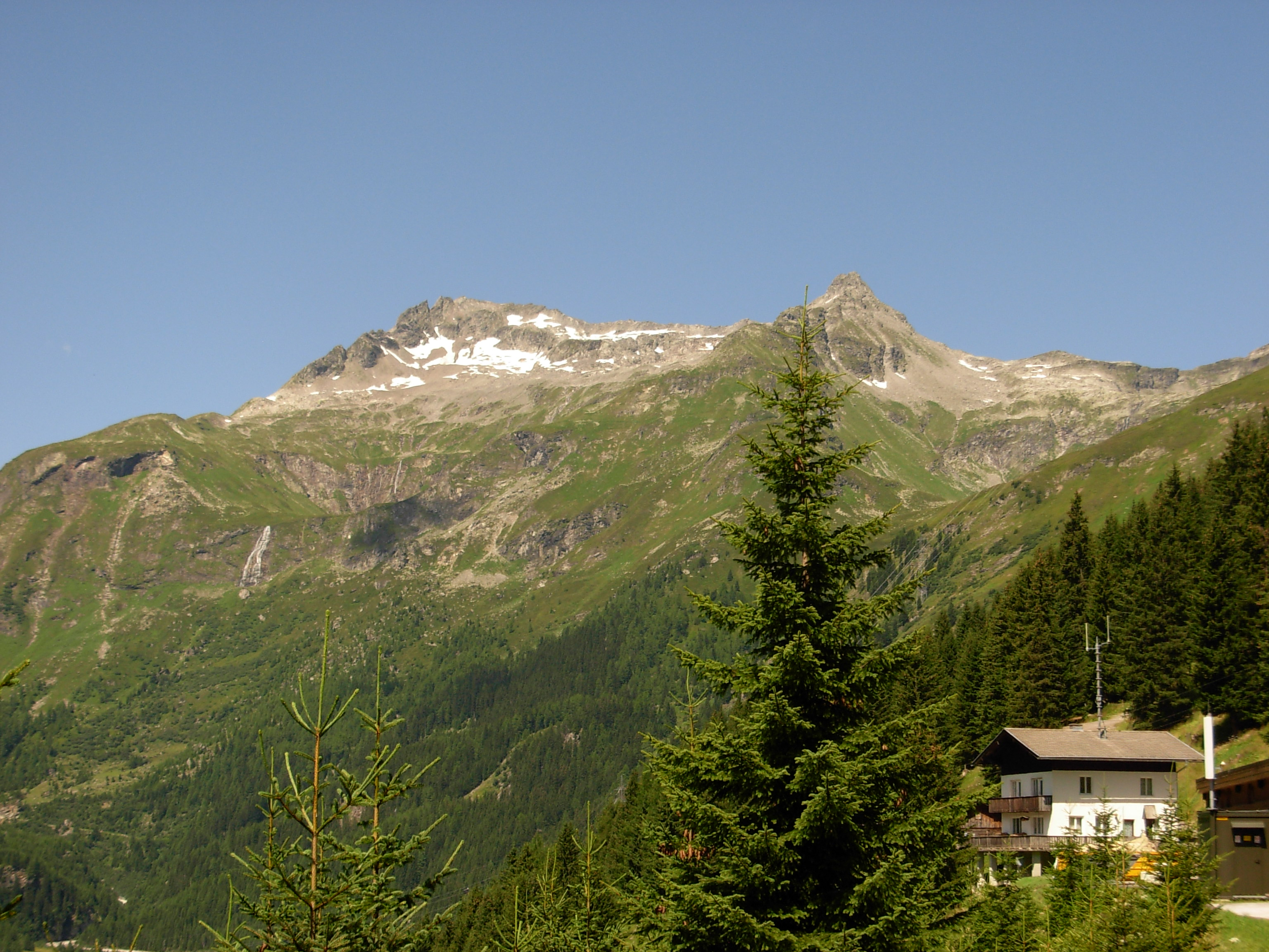 View from south end of Felbertauerntunnels to NW: Roter Kogel 2945m and Dichtenkogel 2843m